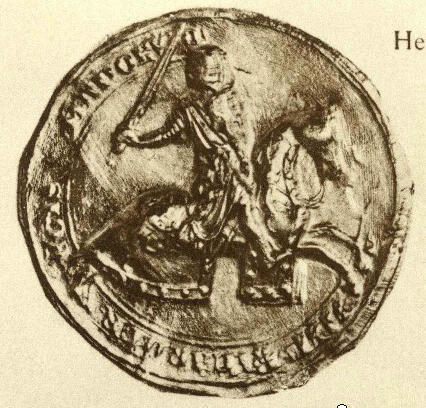 This is a scan of the historical document